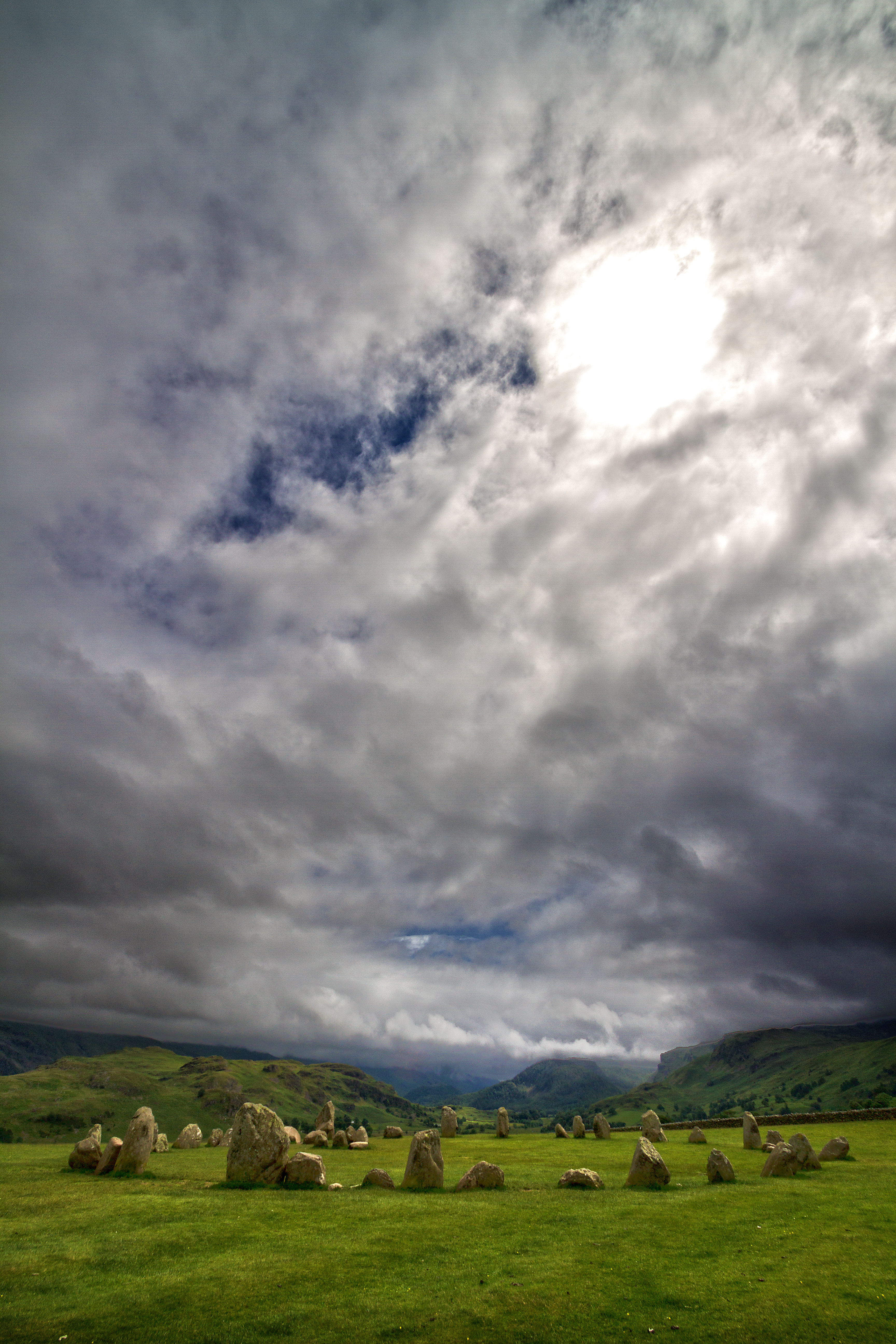 The Castlerigg Standing Stones